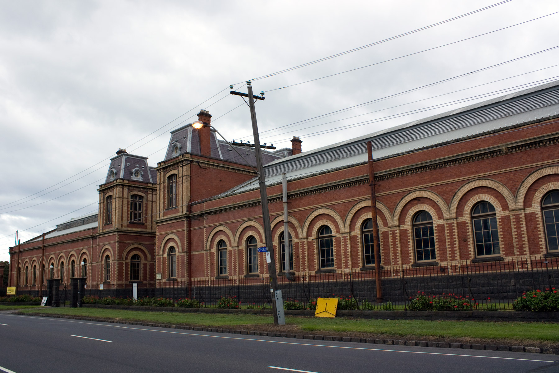 The construction of the Melbourne Sewer system, begun in 1892, was a huge civil engineering undertaking. Its design involved a network of gravitational sewers which would bring sewerage from throughout Melbourne to a central pumping station at Spotswood. From there, it would be pumped to a treatment plant at Werribee, on the western side of Port Phillip Bay. In order to tunnel underneath the Yarra River, a special Gateshead tunnelling shield was imported from Britain. The shield incorporated a sharp steel lip on the leading edge of a 3.4m wide tunnelling cylinder, designed to cut into the rock as the shield moved forwards. Because the tunnel was below the water level of the river, pumps were employed to continually drain water from the work area. Eventually, an airlock consisting of two 1.5m thick brick walls set 4.5m apart in the tunnel, each with a thick steel door containing a small glass peephole, was constructed to reduce the water flow through the tunnel. By Good Friday, 12 April 1895, construction of the tunnel had almost reached the centre of the river, where it was just 3.3m below the riverbed. Around 8:00pm that evening, water burst through the tunnel at the leading edge of the Gatehead Shield. Five men working the nightshift and an engineer were all drowned as water swamped the workings. All men were local residents. Their deaths are commemorated in a monument which was unveiled on 18 October 1996, and is now incorporated into the Westgate Memorial Park.